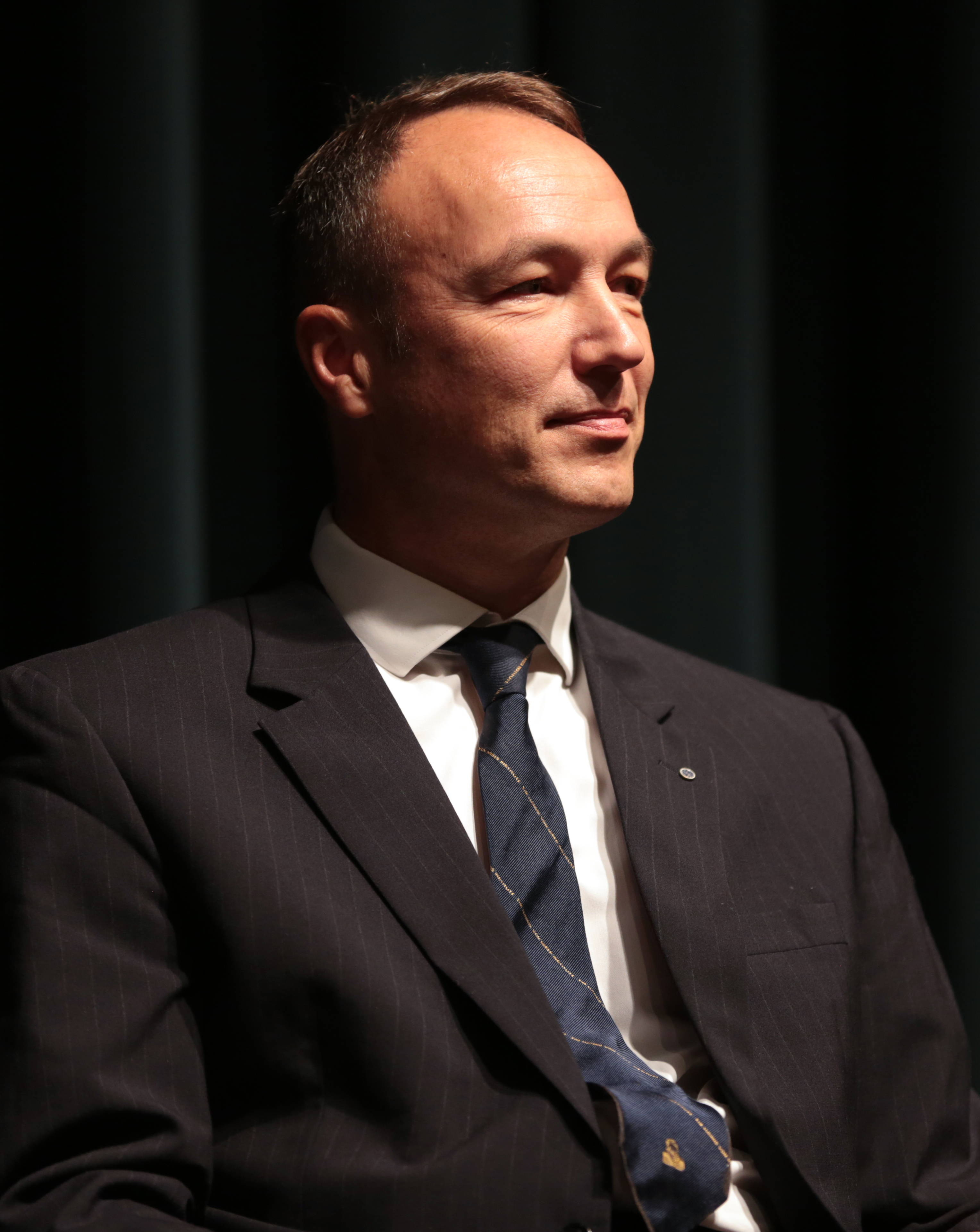 Guido Hulsmann speaking at an event in New York City, New York.